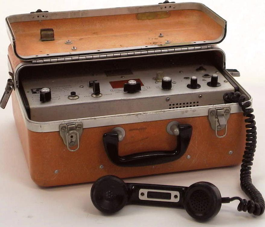 Biophone Model 3502; Also the Original Biophone from Emergency!